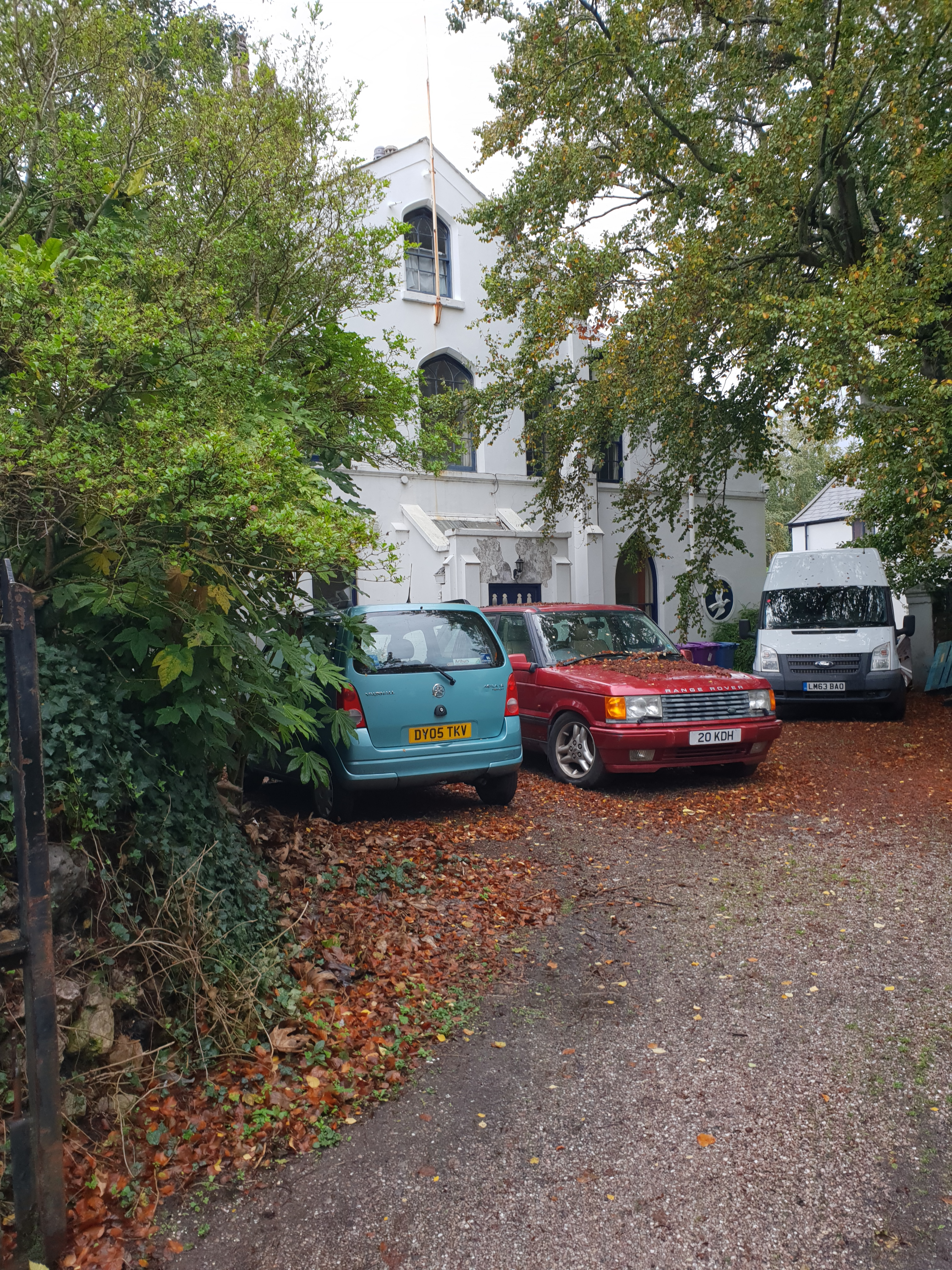 church building